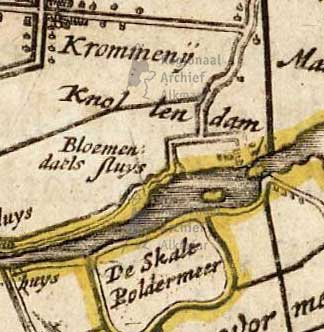 Island Bloemendaal in river Zaan, North-Holland province in the Netherlands